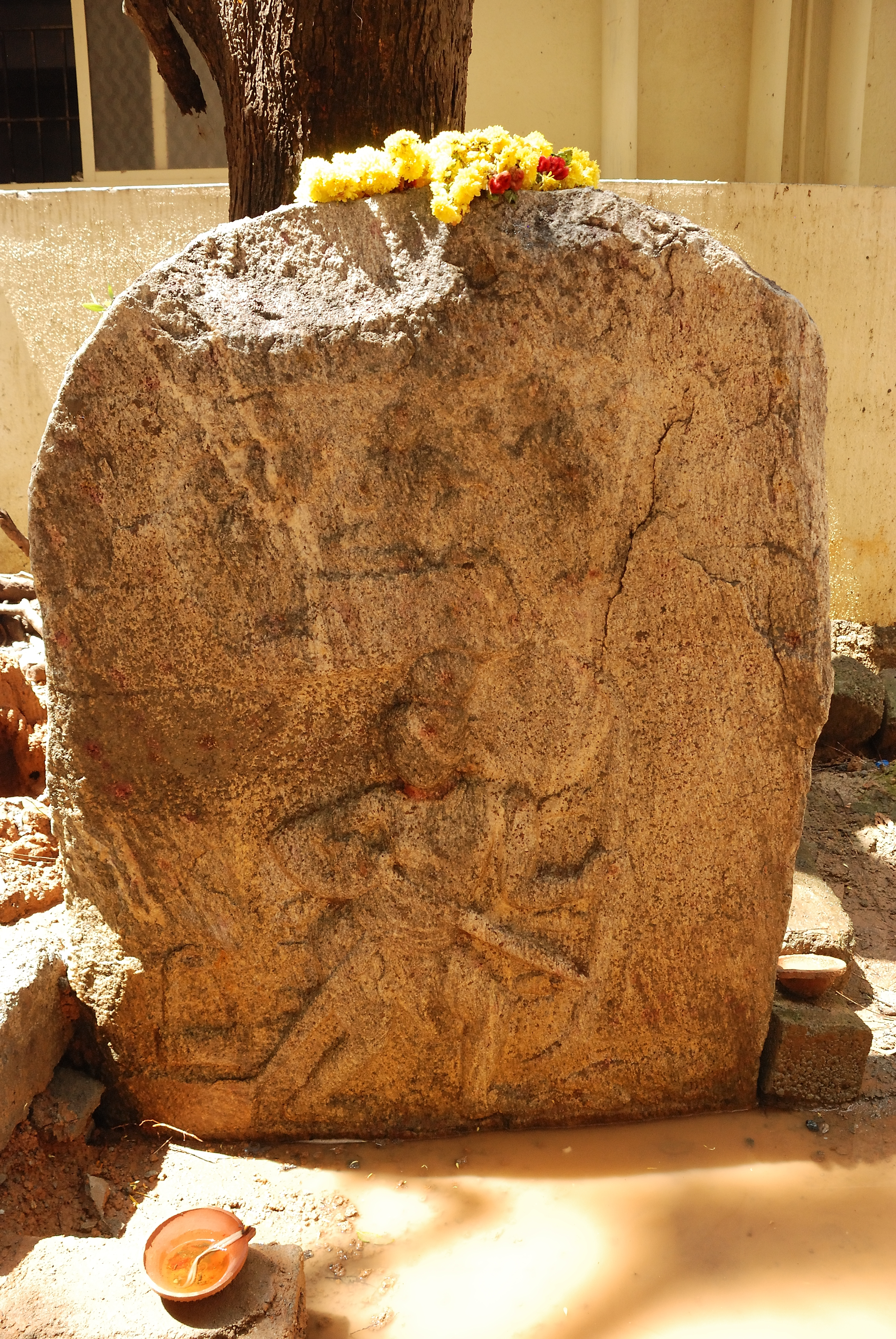 inscriptionstonesofbangalore